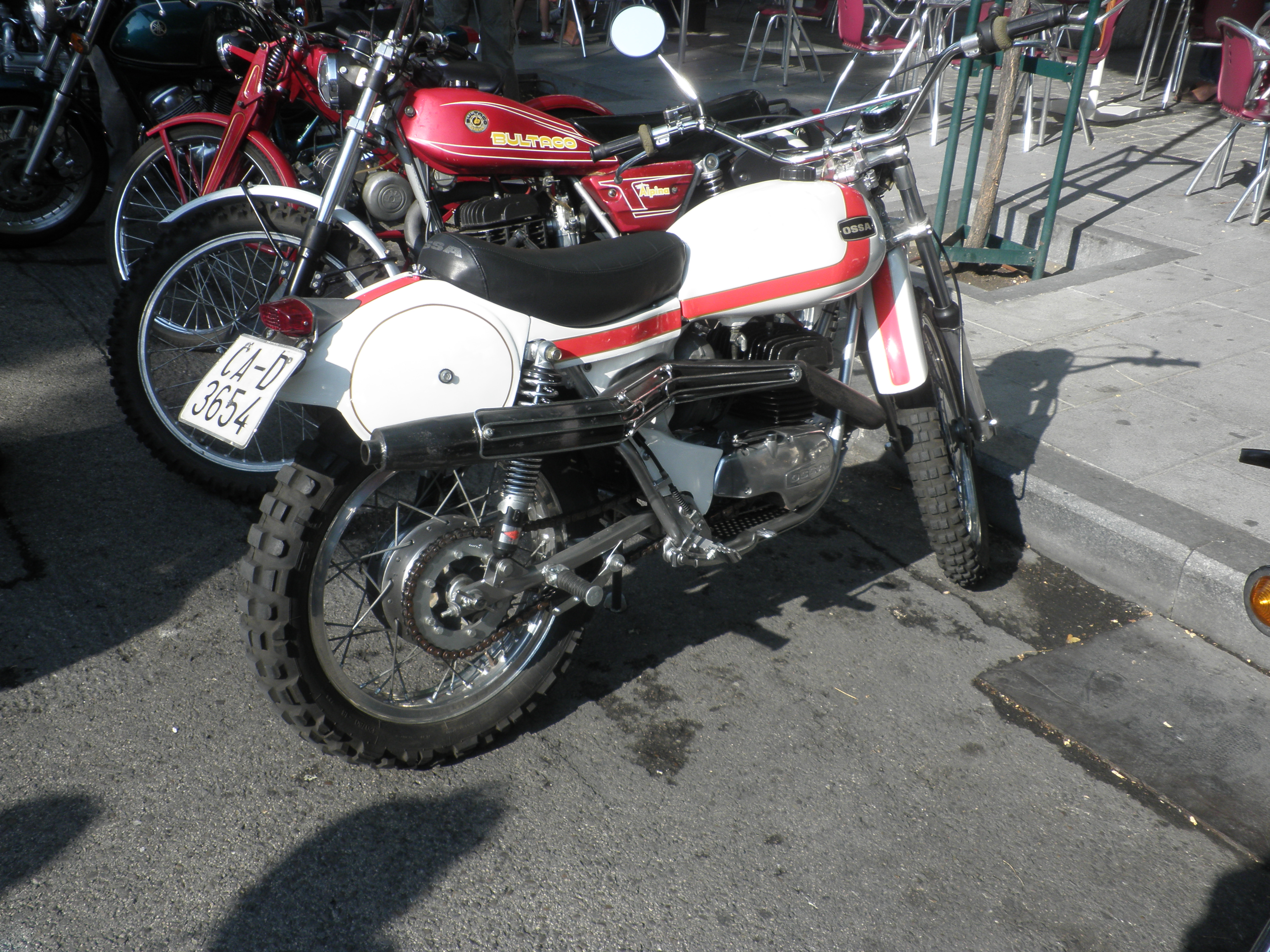 OSSA Enduro 73